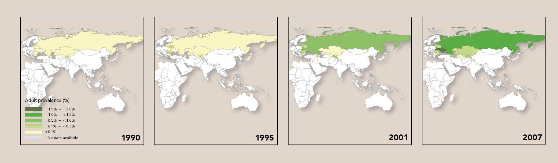 Spread of HIV in Eastern Europe and Central Asia